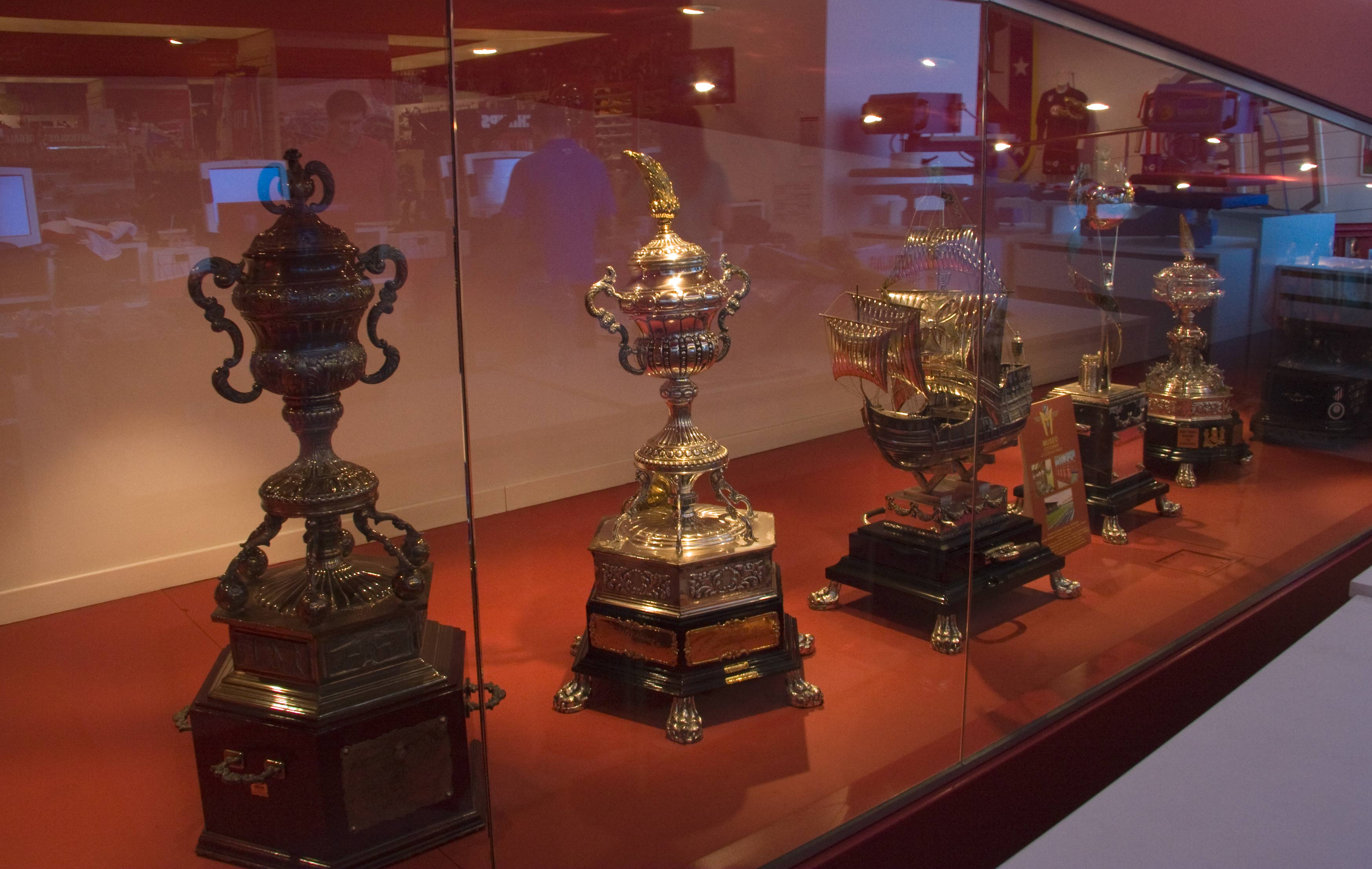 Trophies of Atlético de Madrid